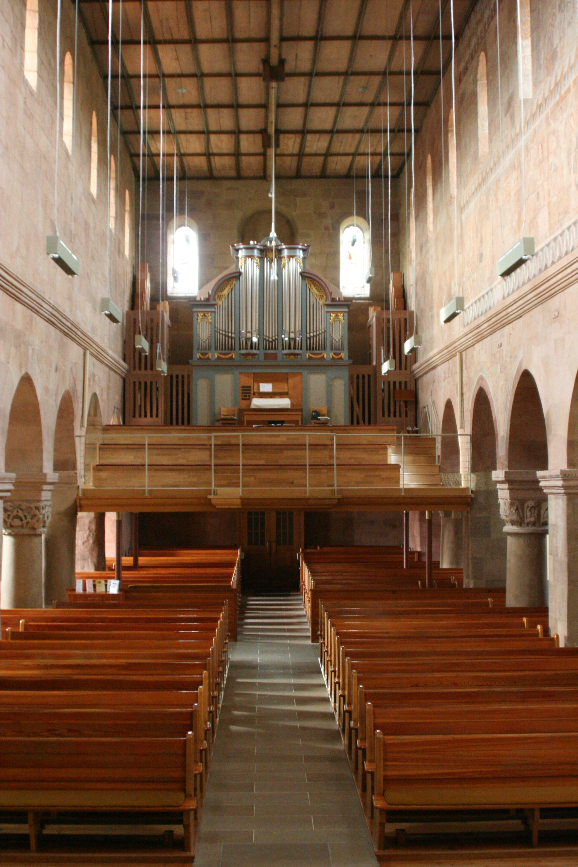 The Johanneskirche (St John's church) in Weinsberg. Nave looking to the West